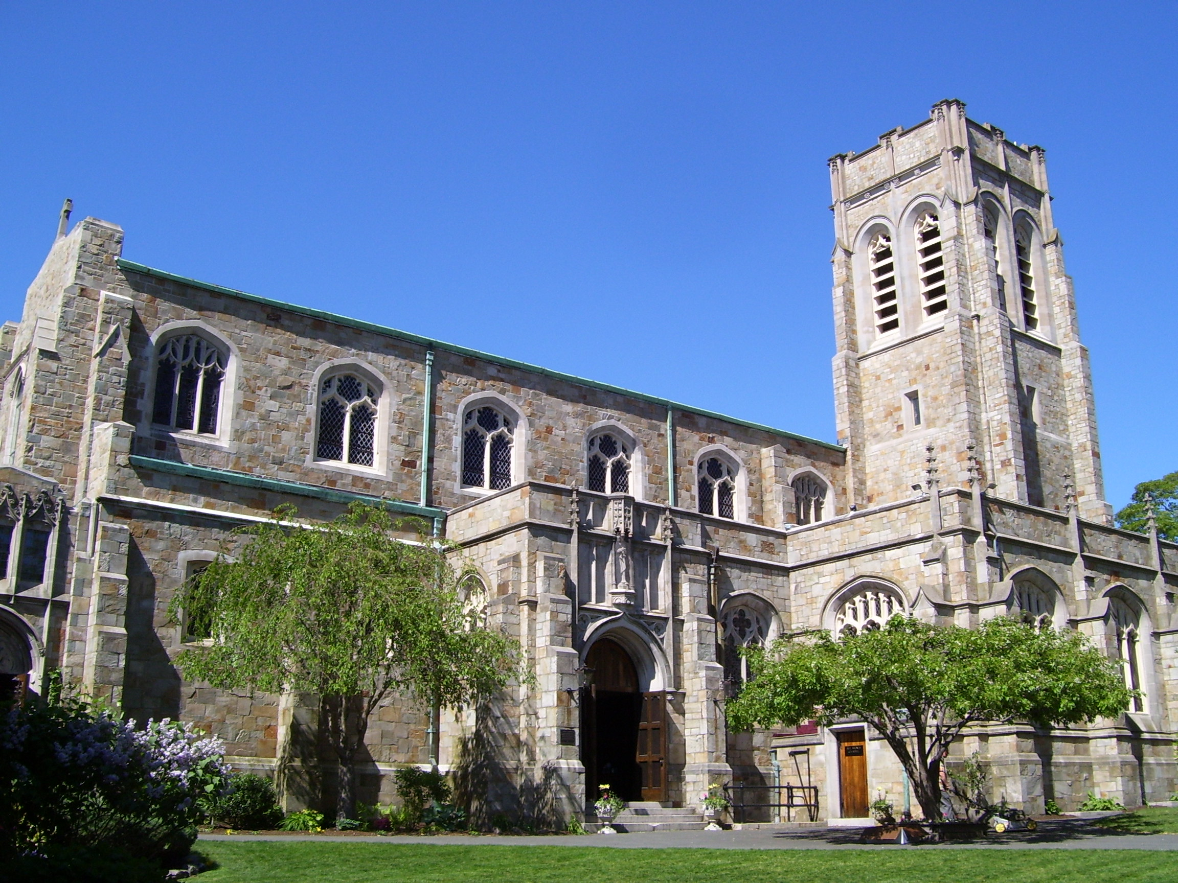 This is my 2008 photo of Emmanuel Church in Newport, RI.